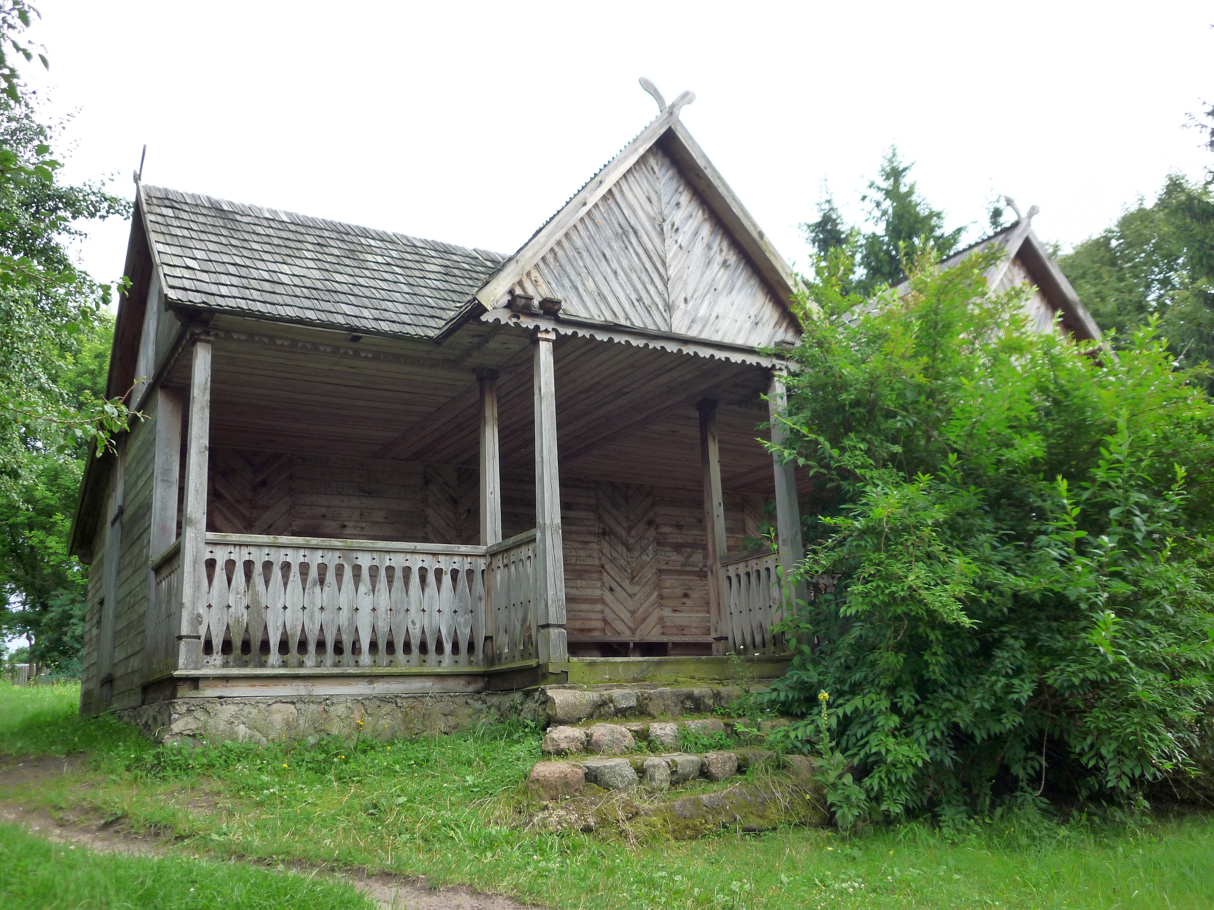 Nowogród (Poland) - Kurpie open-air museum